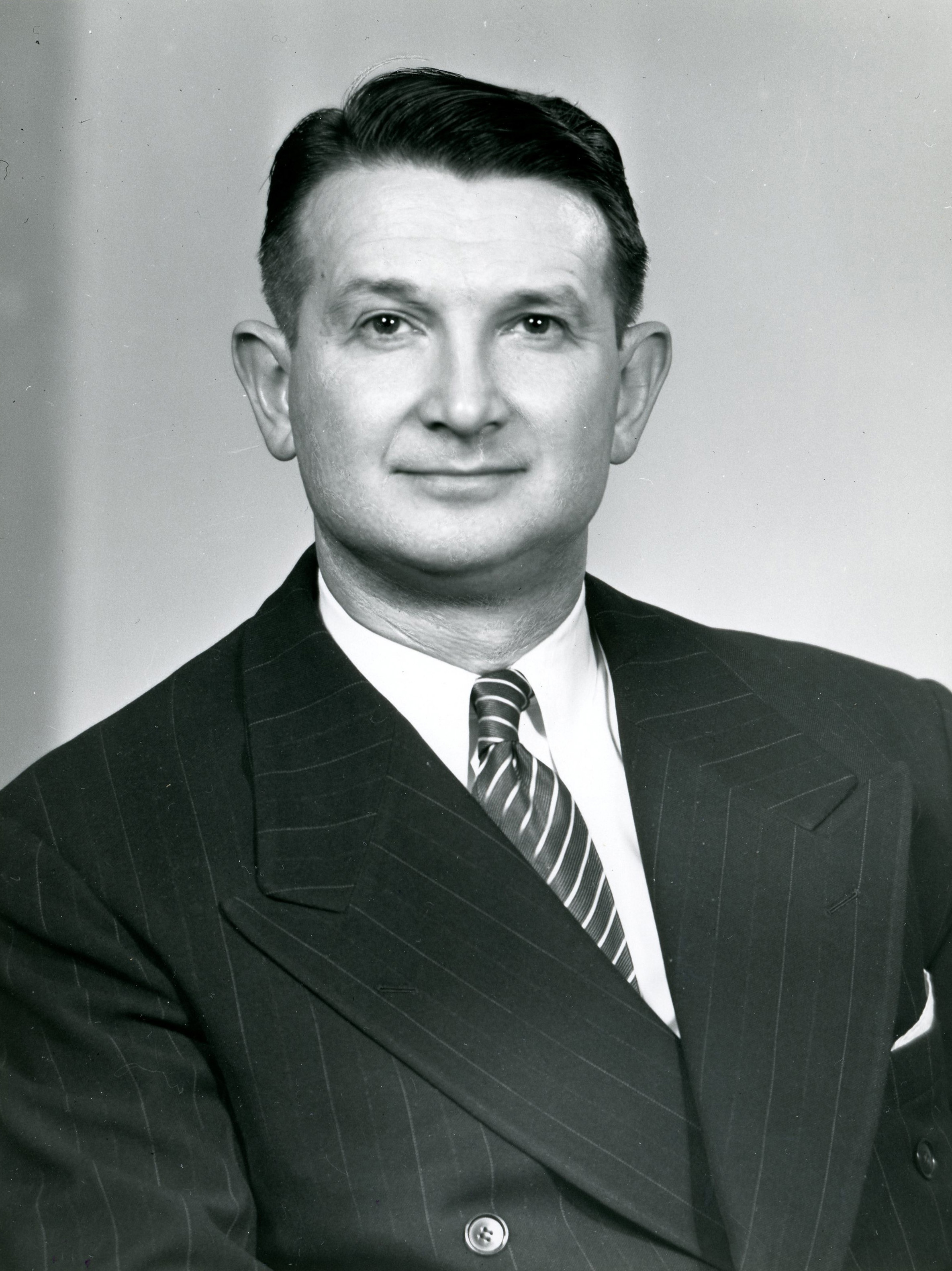 Photograph of Walter P. McConaughy